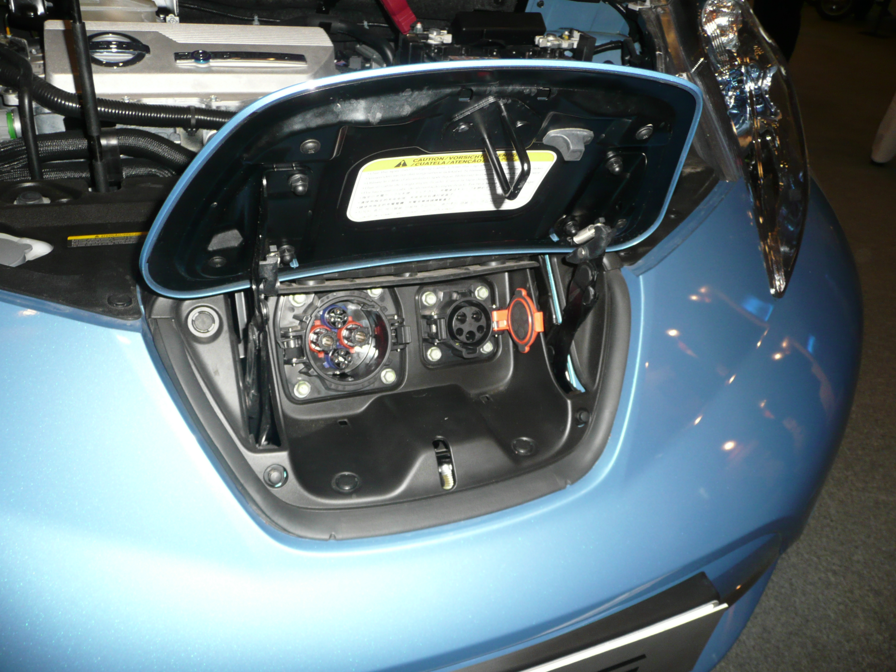 Nissan Leaf Charging Device